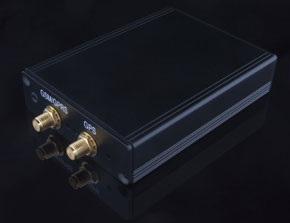 TraceME